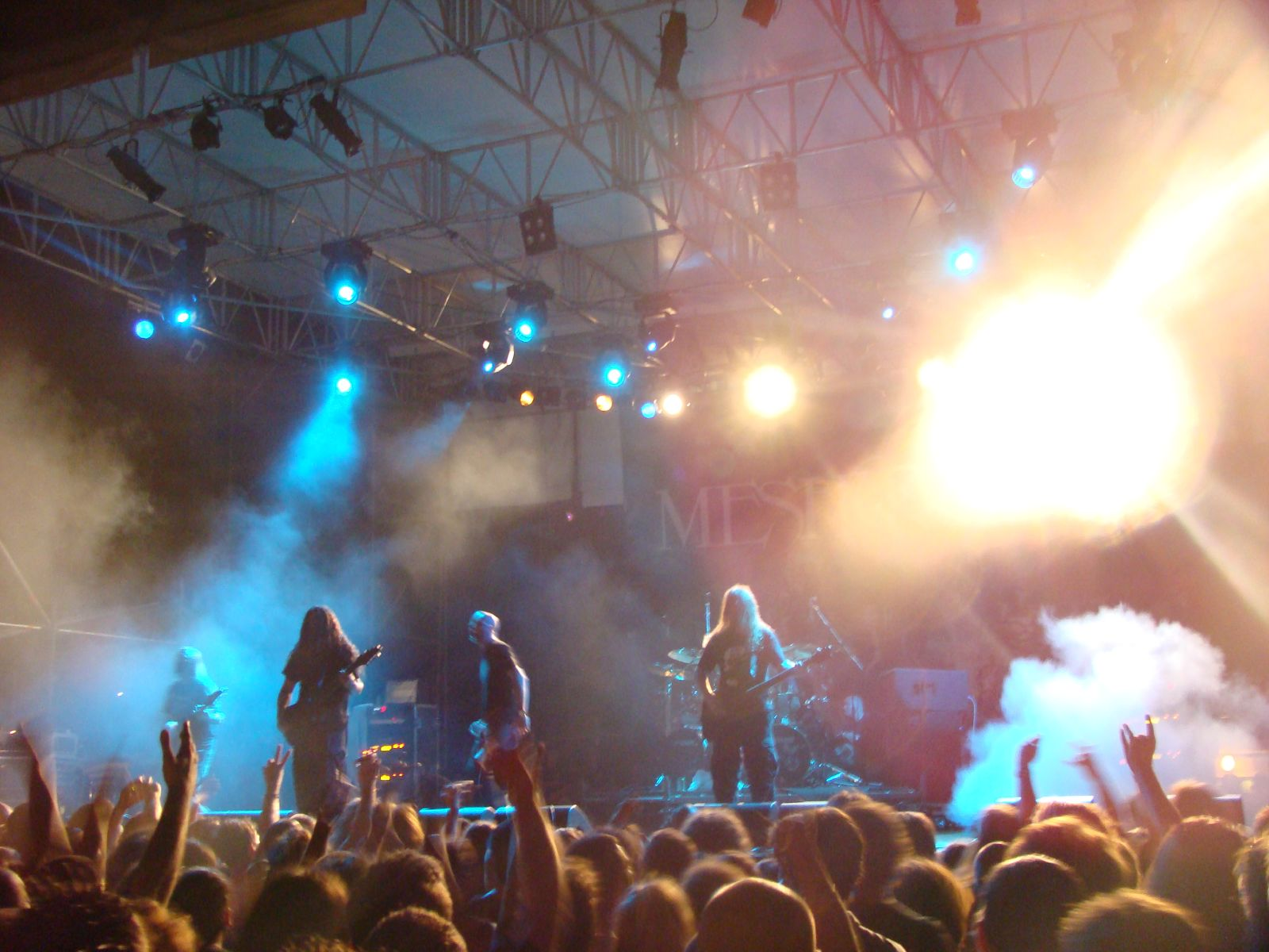 Meshuggah live at Frozen Rock Open Air festival, on July 14, 2007 at Prato dei Popoli, Area impianti sportive, Marcon, Italy.